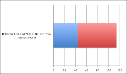 Figure 2. Between 44% and 70% of Brachial plexus injury (BPI) are from traumatic event